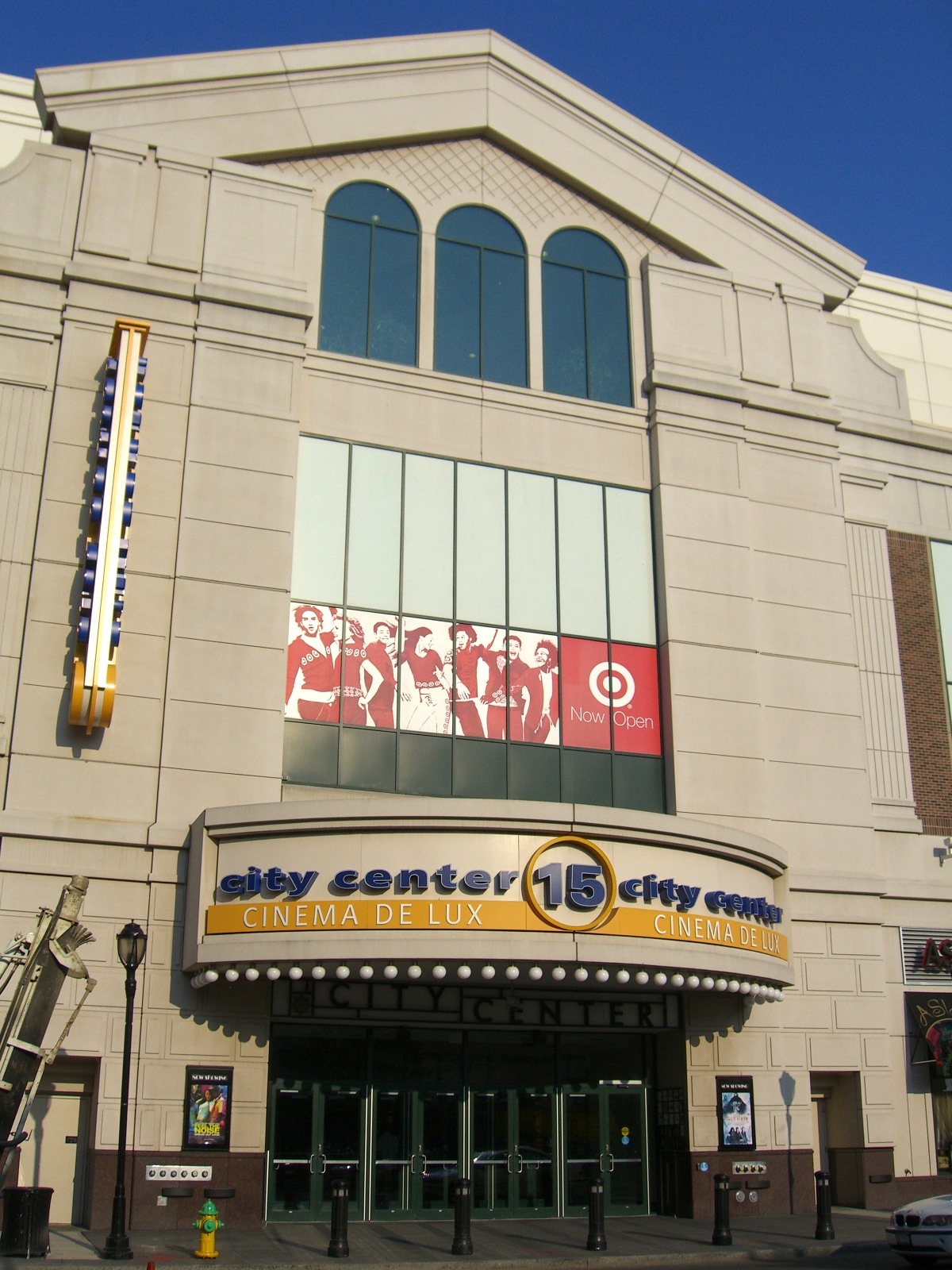 The City Center on Mamaroneck Avenue in White Plains, New York, October 5, 2007. Photographed by Luigi Novi. This photo is not in the public domain. It may, however, be used, modified and published for any purpose, free of charge, only if an easily visible credit to the photographer is placed near the photo in each instance in which it is used. (See licensing information below.) Publication of this photo without this proper attribution constitutes copyright infringement. For more information on my photos, you can contact me here.